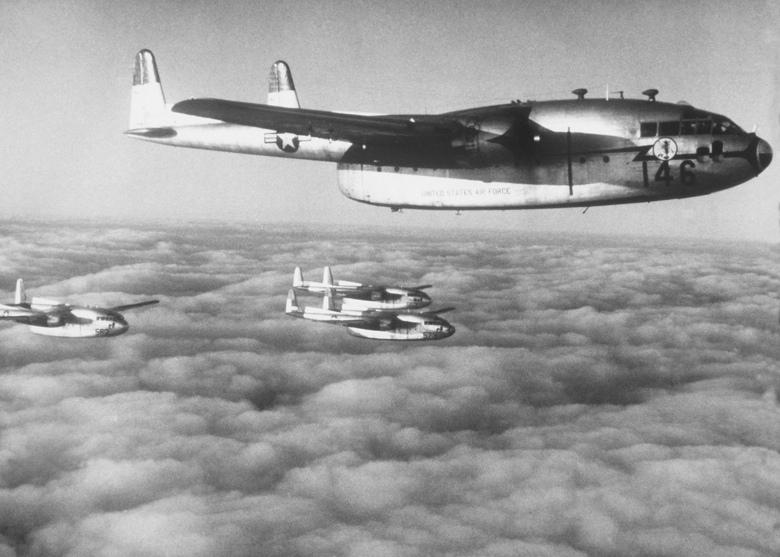 A formation of U.S. Air Force Fairchild C-119 Flying Boxcar transport planes of the 403rd Troop Carrier Wing over Korea, on 1 October 1952.